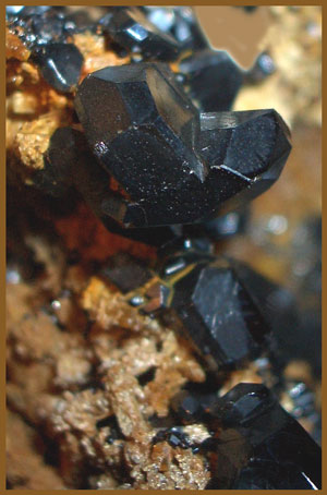 Rutile Twin, 1cm. cristal with Qartz. Azerbaijan, Capudjuk mine